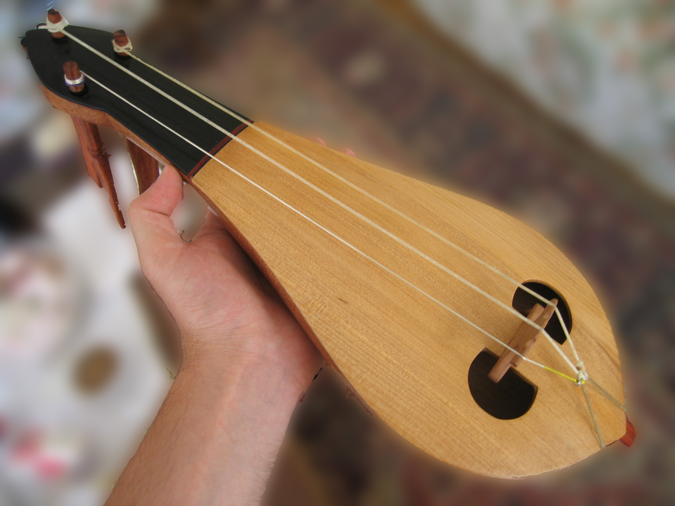 Pictures of Kemence at different stages of making...